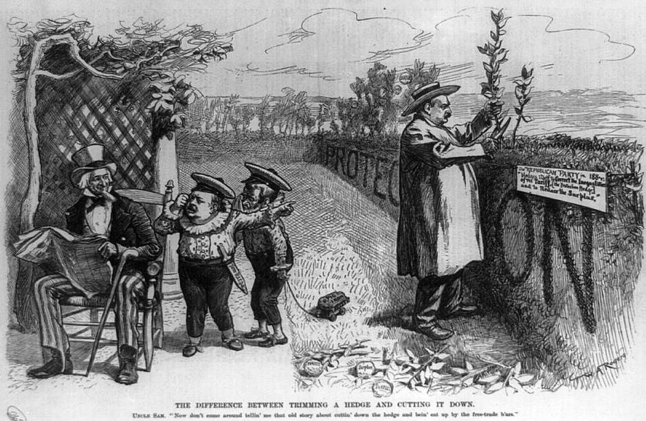 Political cartoon showing Thomas Brackett Reed as a boy, crying to Uncle Sam, with another boy pulling small wagon "pig iron, Kelley," while President Grover Cleveland trims "tariff, the protection hedge" to reduce the "surplus".